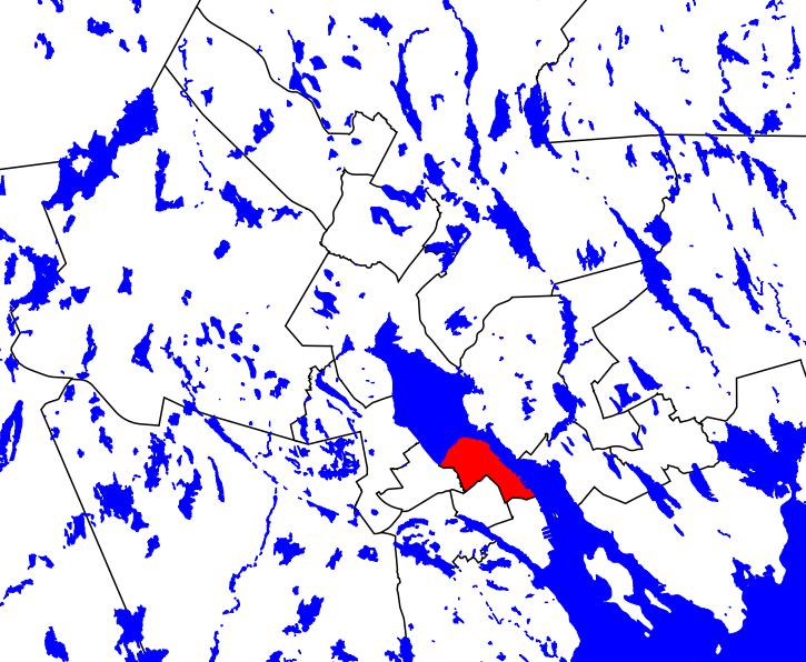 Map showing the location of Halifax Needham